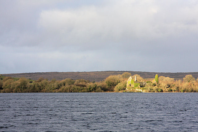 Castle on Lough Inchiquin This ruined castle is situated on Lough Inchiquin. There is also an Inchiquin Island on Lough Corrib, in County Galway.